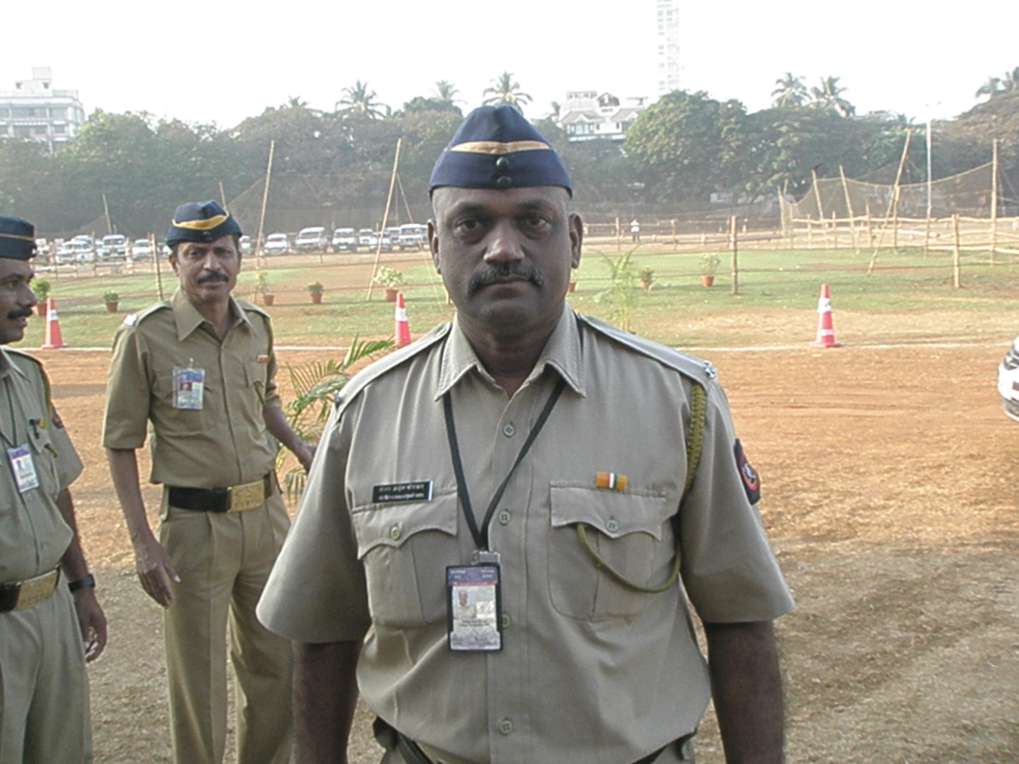 Taken on 26/1/2009 with permission. Mumbai Police Constable